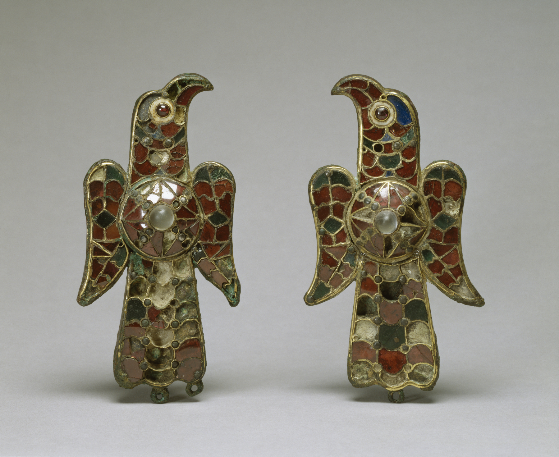 Walters 54.421 and 54.422 are a pair of superb eagle-shaped fibula found at Tierra de Barros (Badajoz, southwest Spain) made of sheet gold over bronze inlaid with garnets, amythysts, and colored glass. Pendants once dangled from the loops at the bottom. The eagle, a popular symbol during the Migration period adopted from Roman imperial insignia, was favored by the Goths. Similar eagle-shaped fibulae have been excavated from Visigothic graves in Spain and Ostrogothic graves in northern Italy, but this pair is one of the finest. These fibula would have been worn at the same time to fasten a cloak at either shoulder.